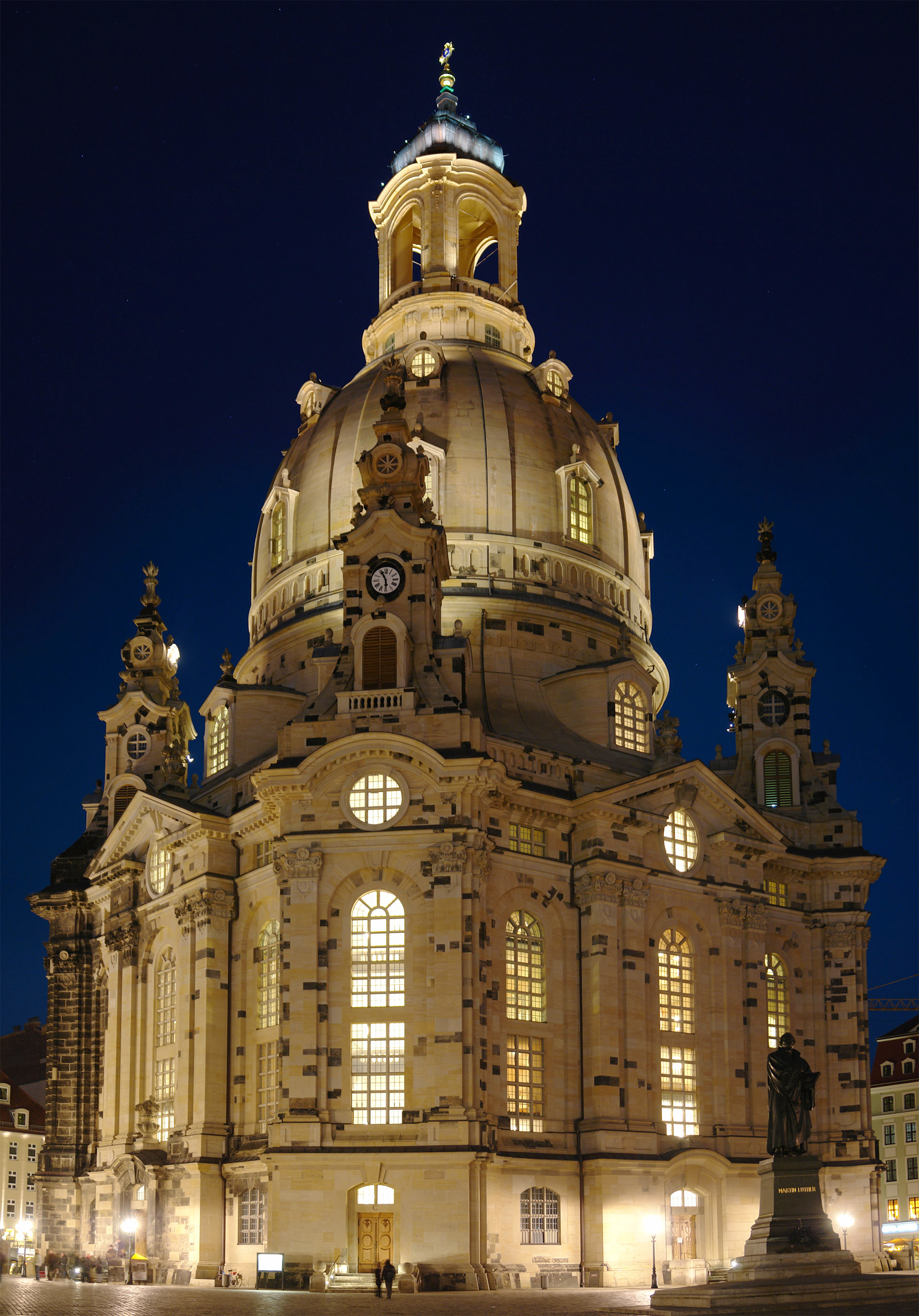 Church of Our Lady, Dresden.